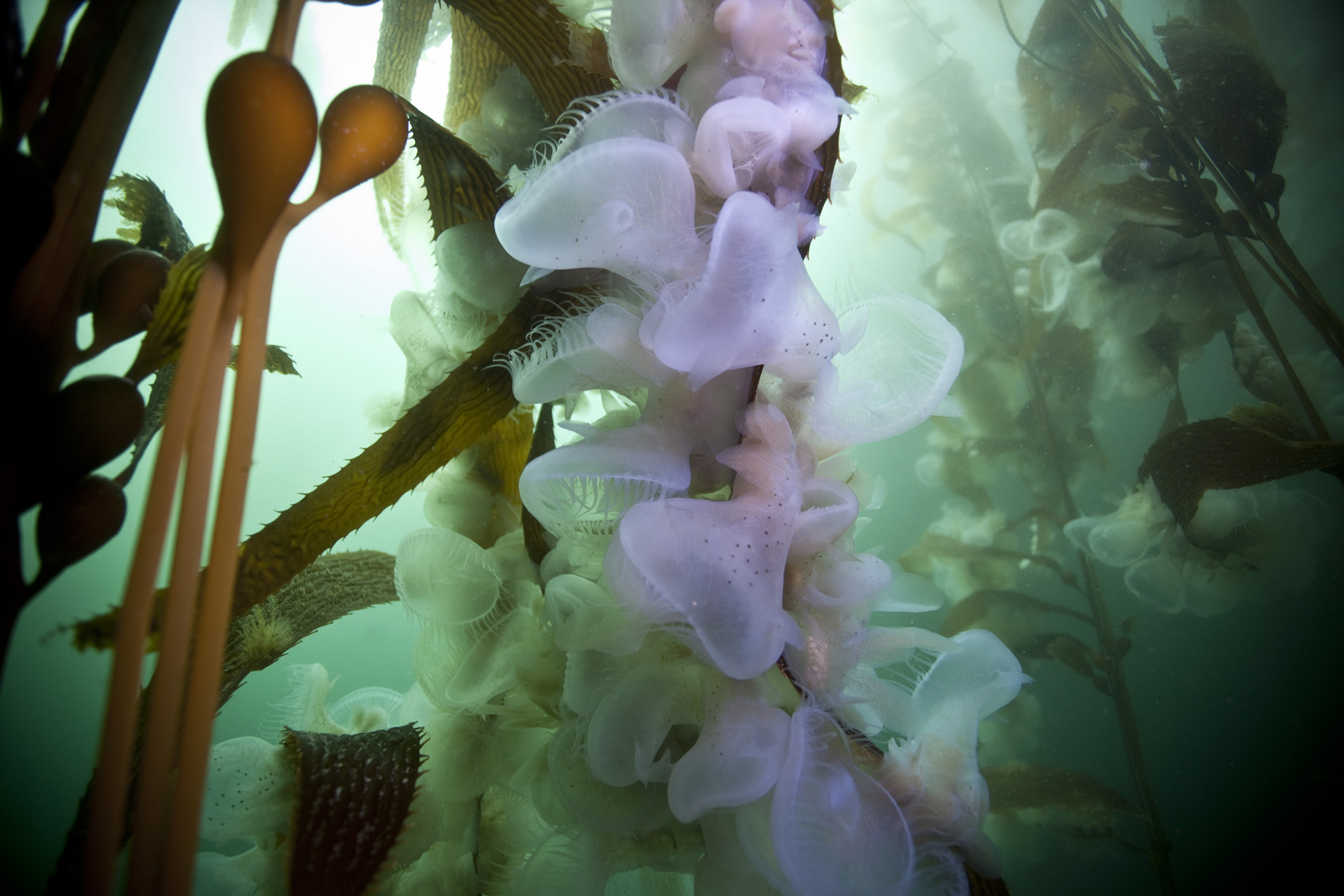 An extraordinary density of the hooded nudibranch, Melibe leonina. The hoods of these predatory sea slugs exceeded 15 cm in diameter and were found on dozens of giant kelp between a depth of 15 and 30 feet offshore of Pfeiffer Big Sur State Park.